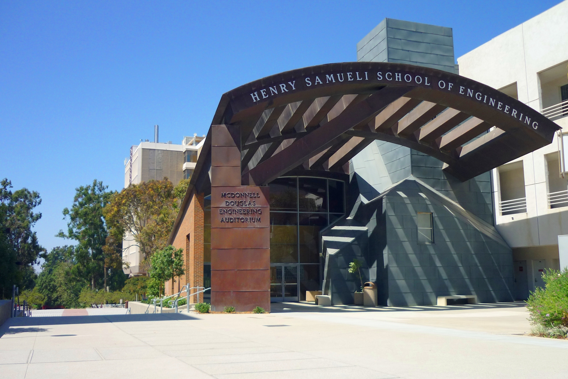 The McDonnell Douglas Engineering Auditorium, part of the Rockwell Engineering Center. This Frank Gehry-designed building is part of the Henry Samueli School of Engineering at the University of California, Irvine. It was built in 1990. Engineering Tower, the tallest building on the UC Irvine campus, is visible in the background.